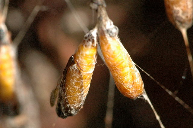 Picture taken in Commanster, Belgian High Ardennes . Species: Yponomeuta padella pupae